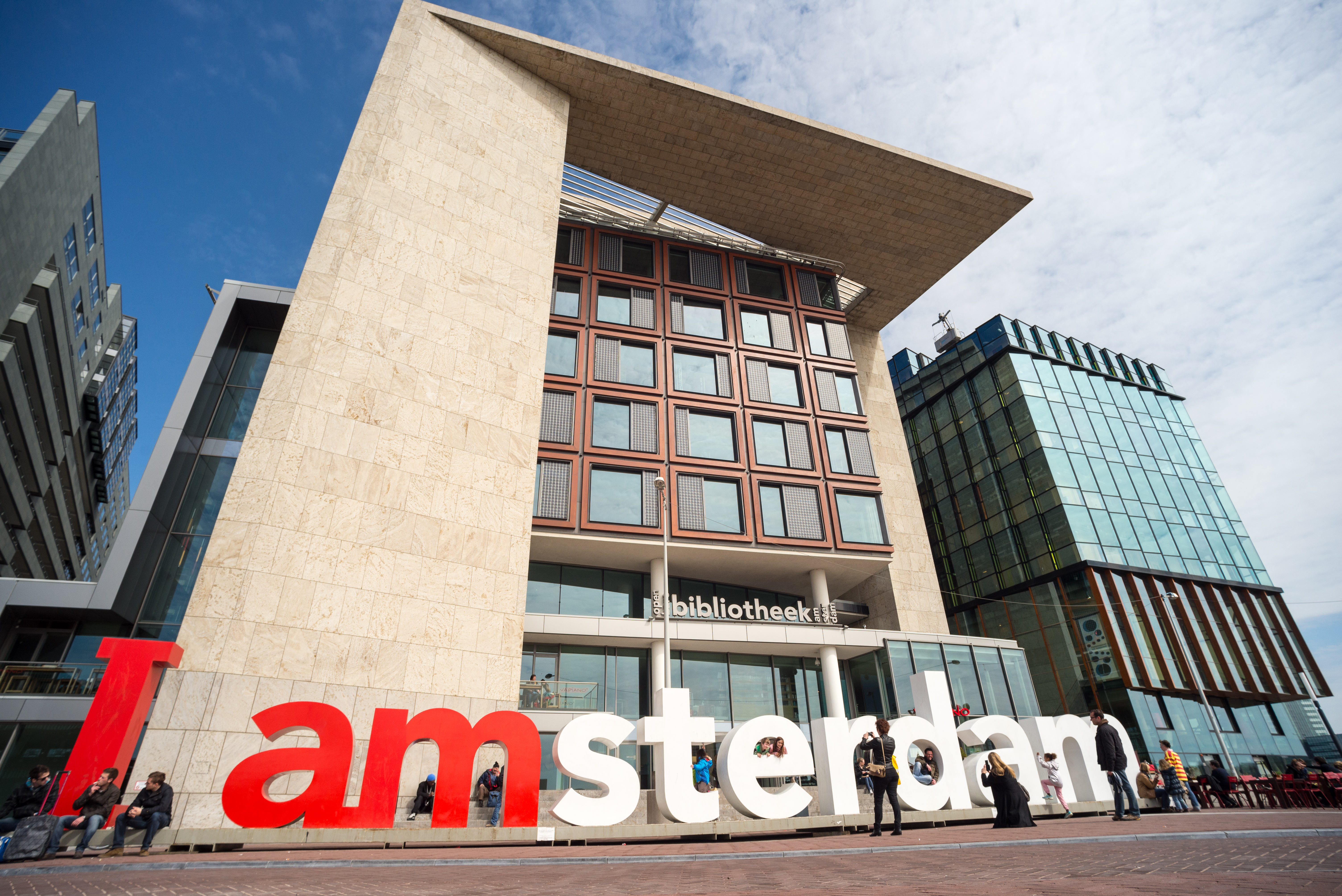 Amsterdam Public Library